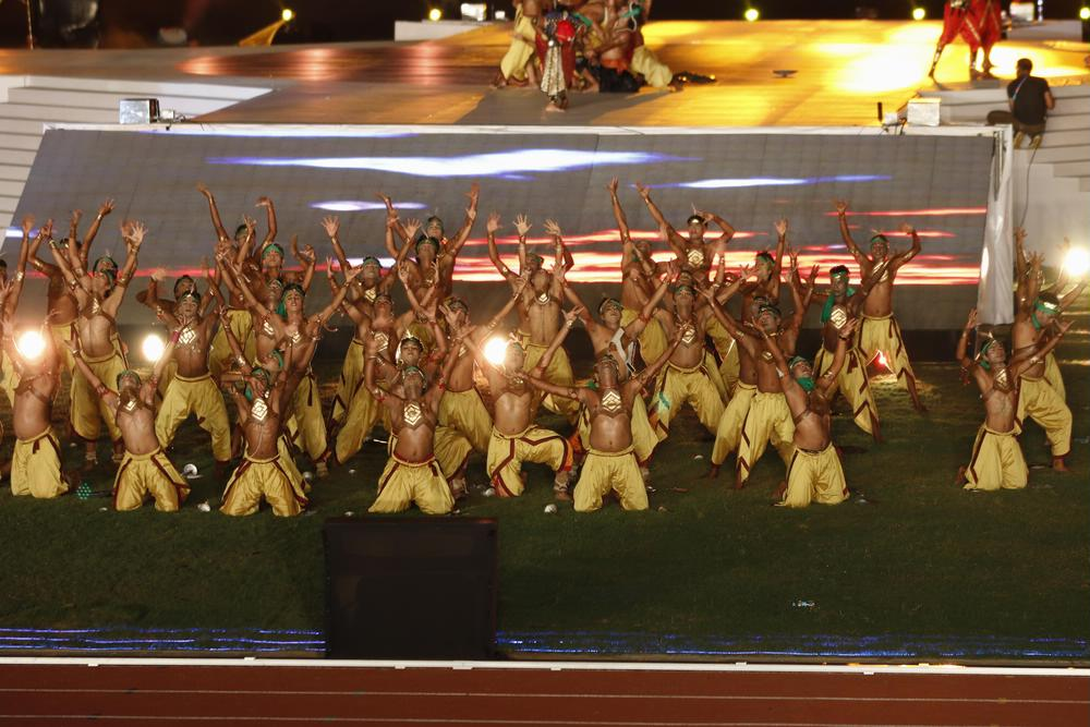 Athletes during 22nd Asian Athletics Championships in Bhubaneswar.